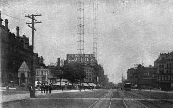 Woodward Avenue, Detroit, looking north